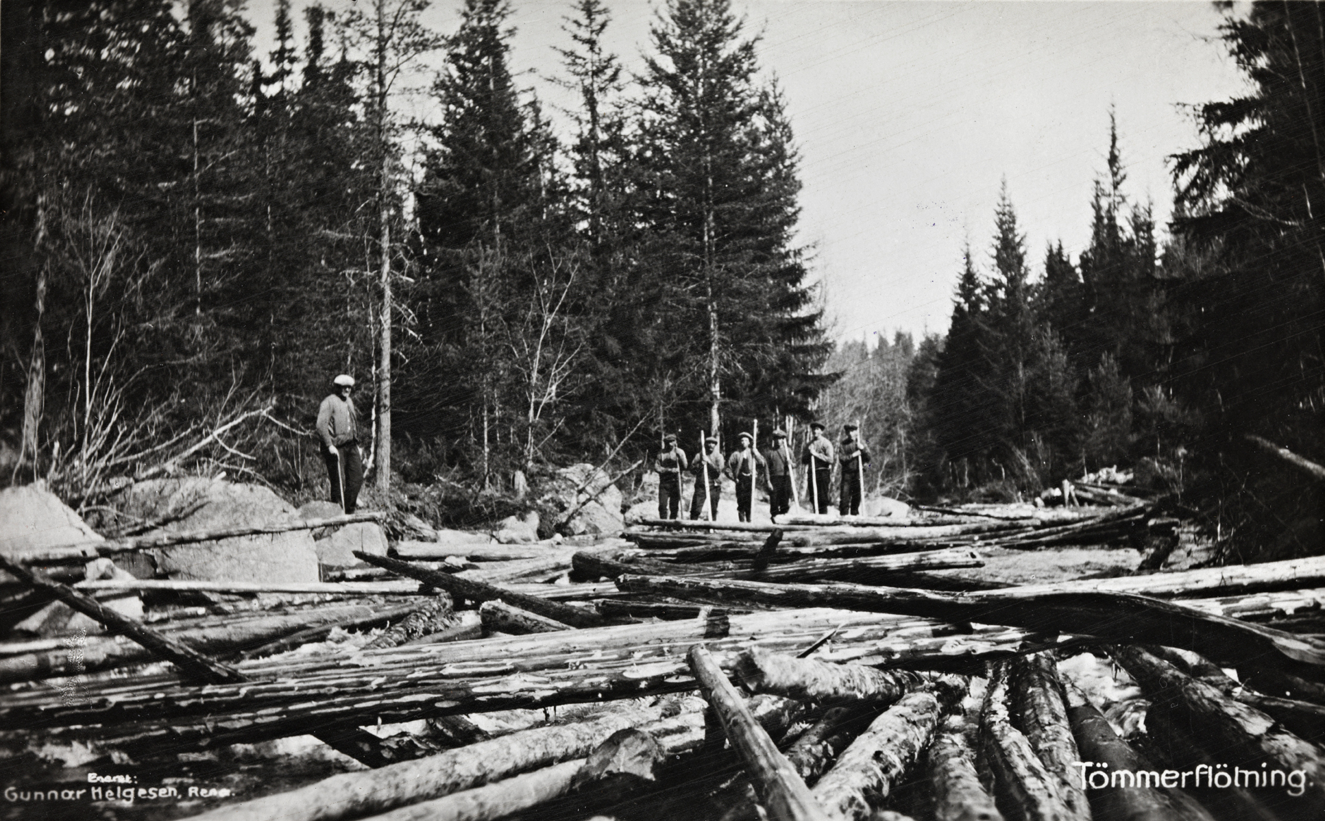 Tittel / Title: Tömmerflötning Beskrivelse / Description: Postkort. Dato / Date: ukjent / unknown Fotograf / Photographer: ukjent / unknown Utgiver / Publisher: Gunnar Helgesen (Rena) Sted / Place: ukjent / unknown Eier / Owner Institution: Nasjonalbiblioteket / National Library of Norway Lenke / Link: Bildesignatur / Image Number: blds_05703